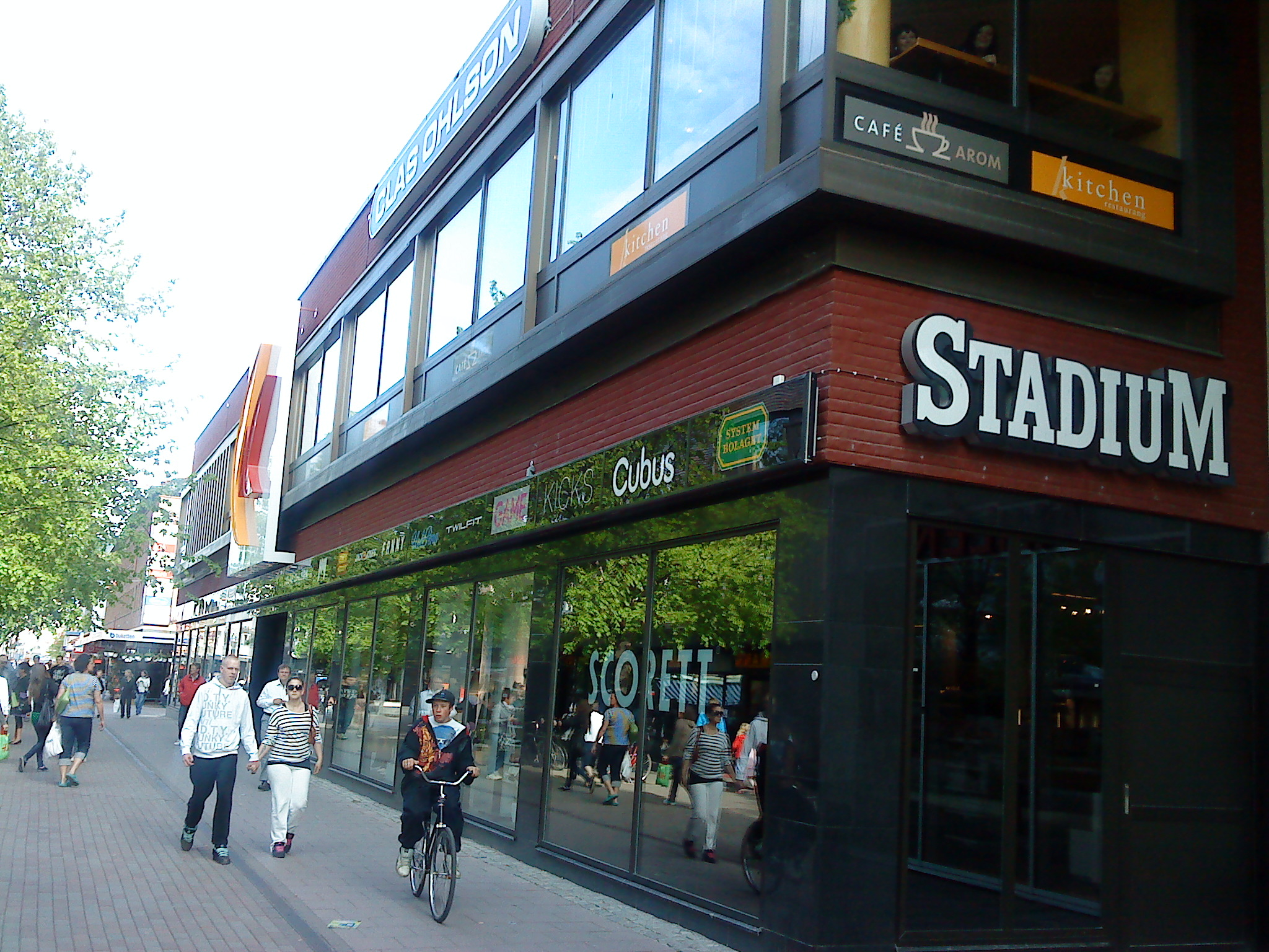 Citykompaniet, a shopping mall in Skellefteå, Sweden